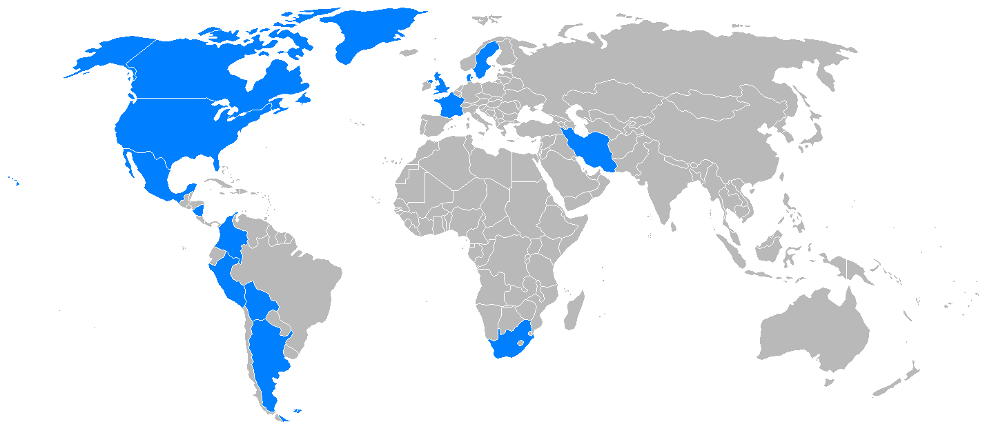 Civilian operators of the B-17